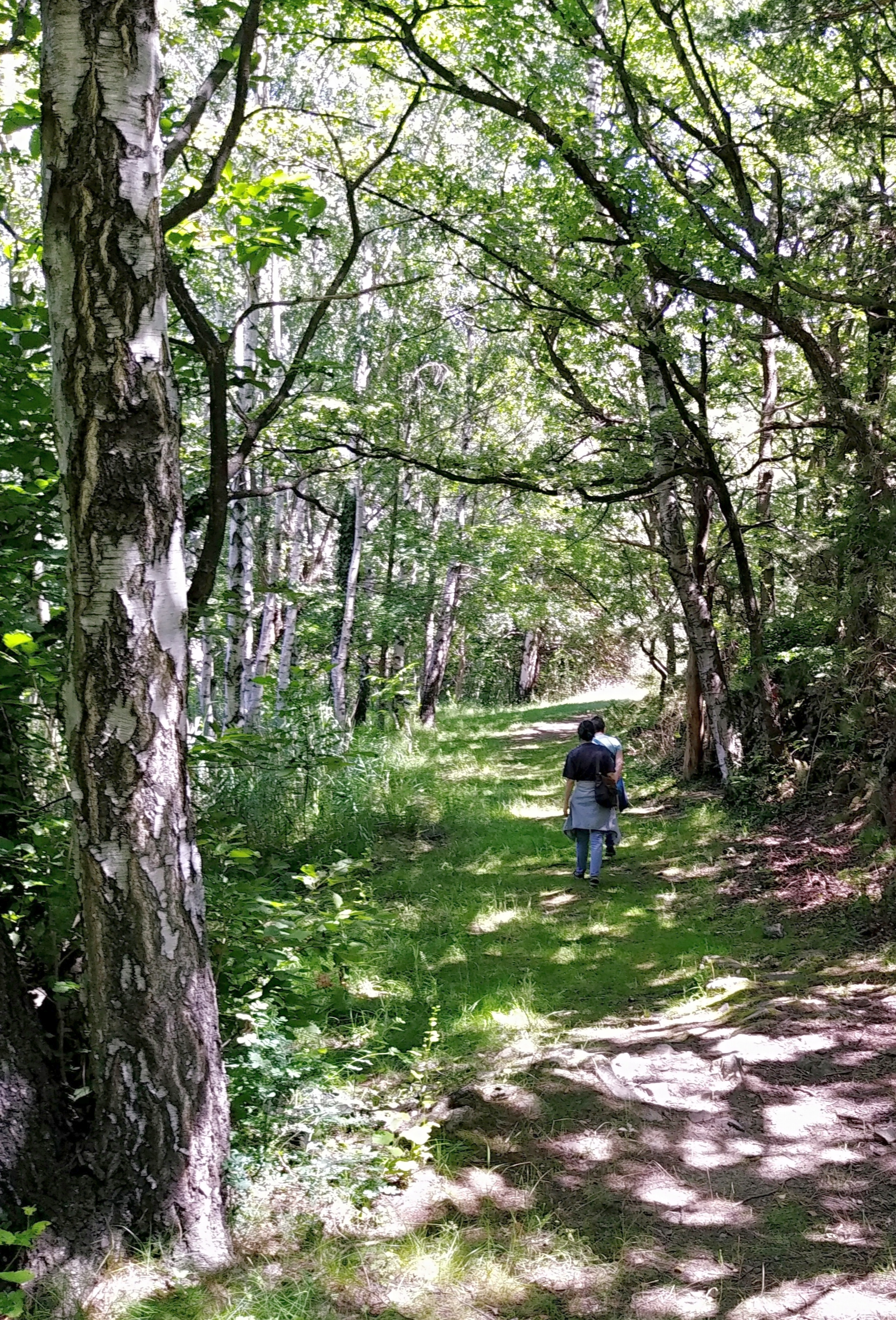 Lago di Villa (Challand-Saint-Victor, AO, Italy): pedestrian road